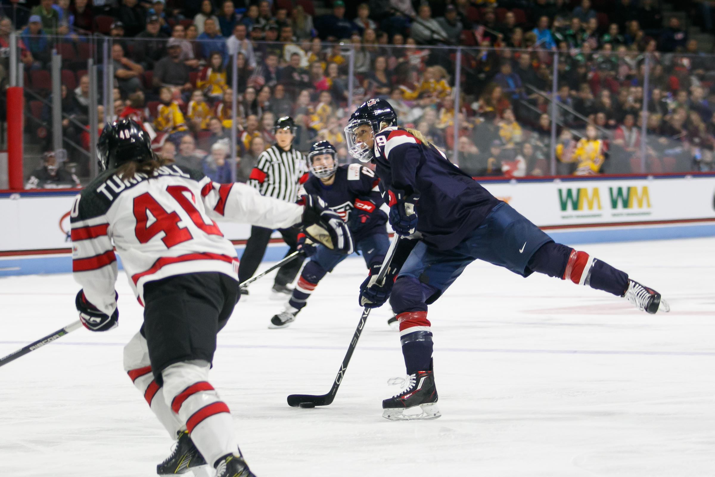 Team USA defender Gigi Marvin takes a shot on goal